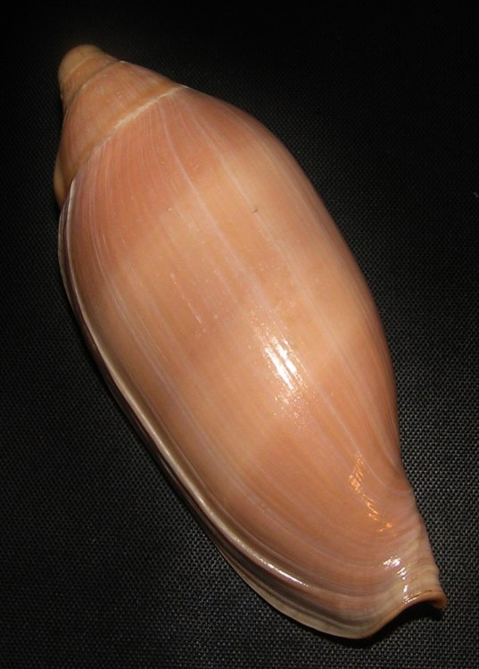 Photograph of the seashell Afrivoluta pringlei J. R. Tomlin, 1947 / Origin of image: Own collection. South-Africa. Mossel Bay.